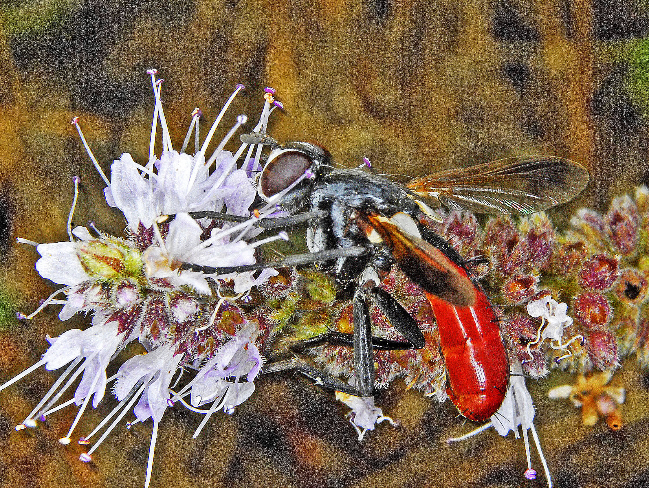 Cylindromyia bicolor. Cerreto, Alesandria, Italy